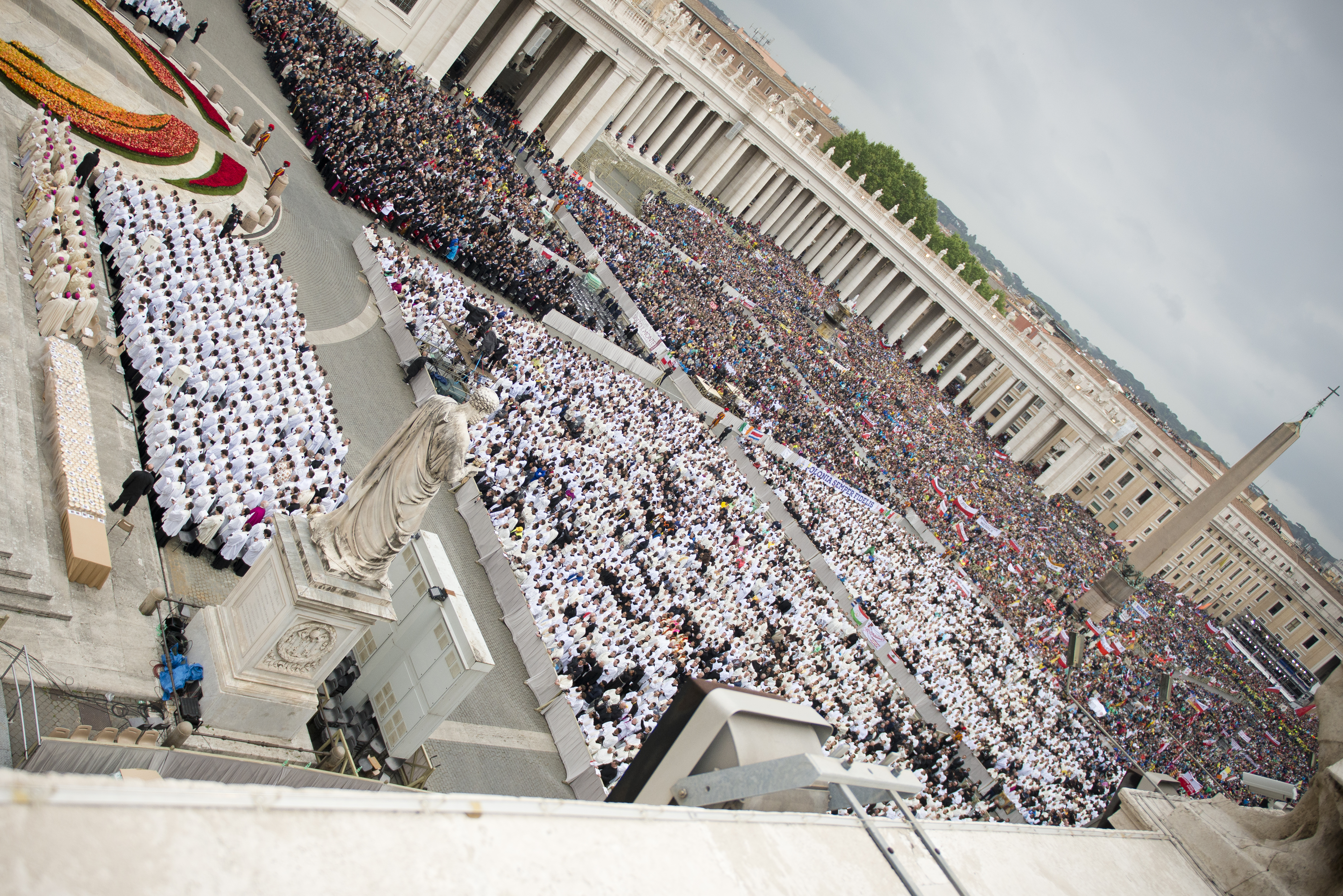 ROME,VATICAN 27 APRIL: Images taken from what will go down in history as one of the largest and most important days in current history. The Canonization of Blessed Pope John XXIII and Blessed Pope John Paul II. Two beloved Popes from the 20th Century.